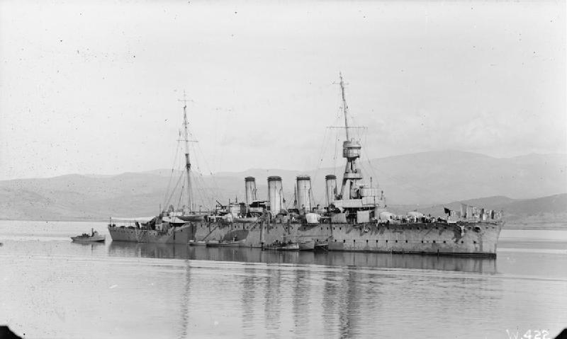 British light cruiser HMS LOWESTOFT at Kalloni, Lesbos.